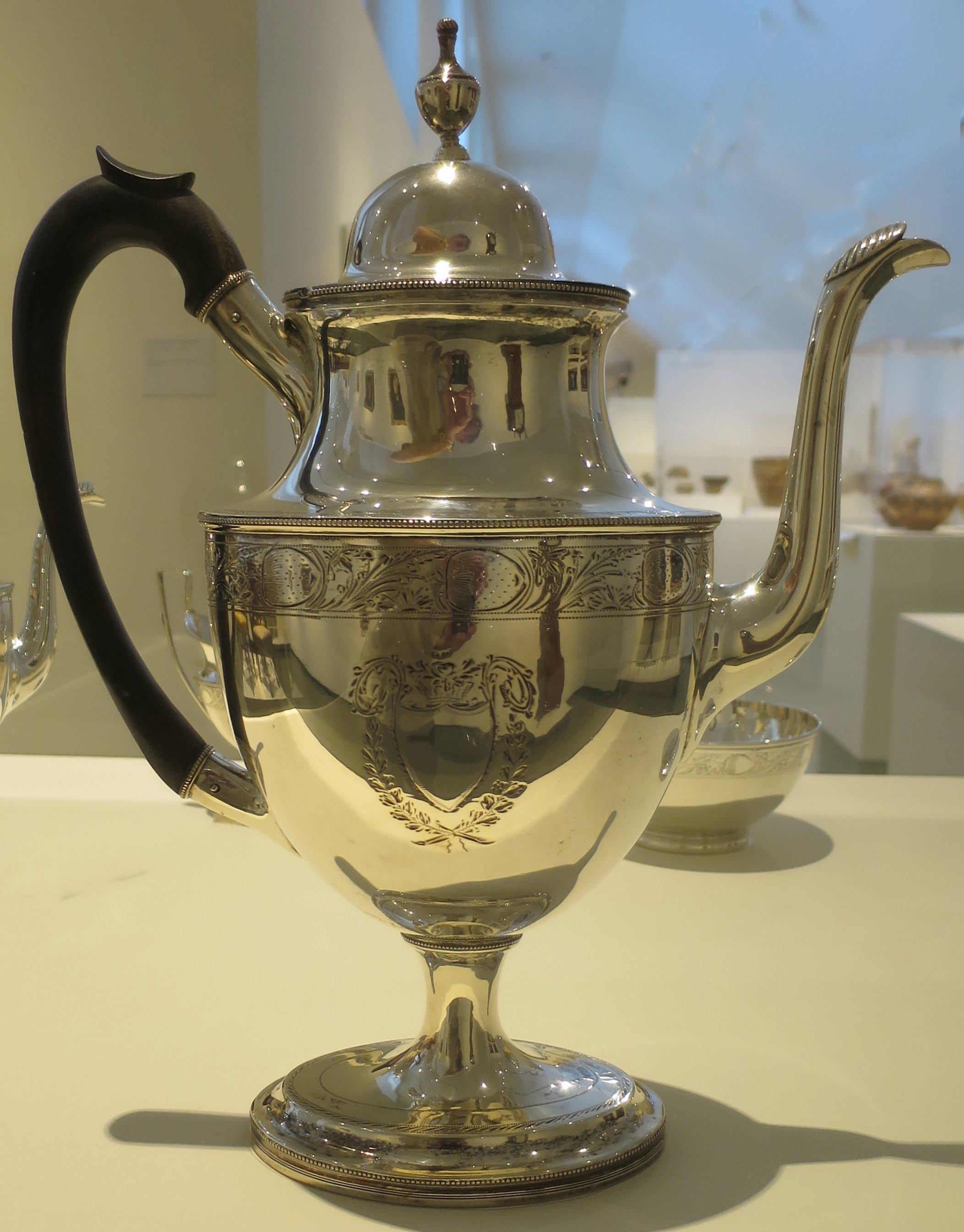 Silver coffee pot from coffee and tea service manufactured by Littleton and Holland of Baltimore, c. 1800-05, Honolulu Museum of Art, accession 4277.1a-e